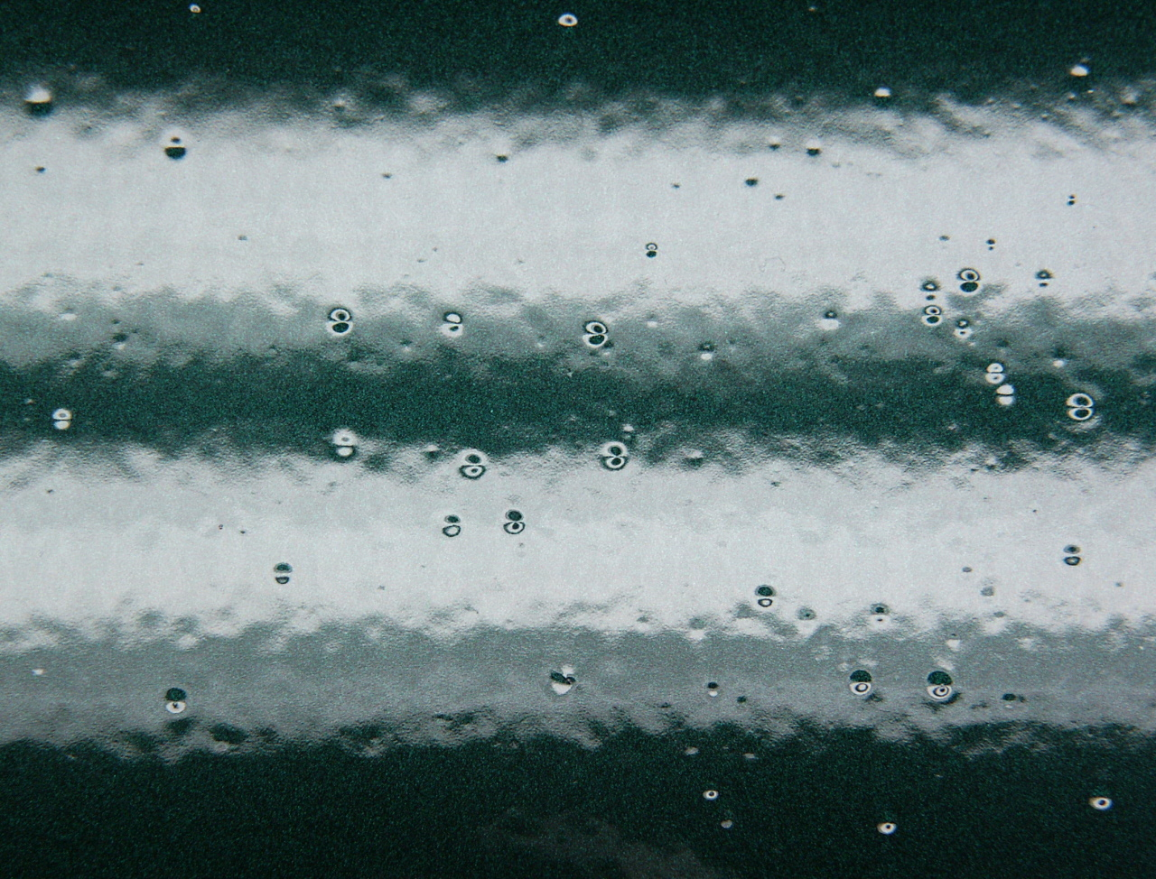 Crater in the a clearcoat layer on top of a green basecoat. May be caused by local spots of different surface tension.